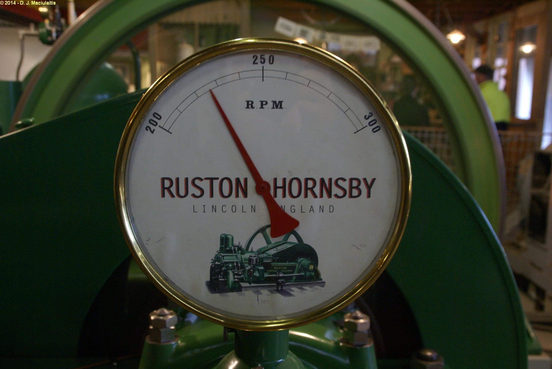 Ruston & Hornsby heavy oil engine tachometer